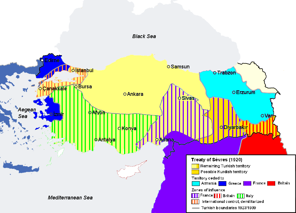 Map illustrating the partitioning of Anatolia according to the Treaty of Sèvres (1920) after World War I.